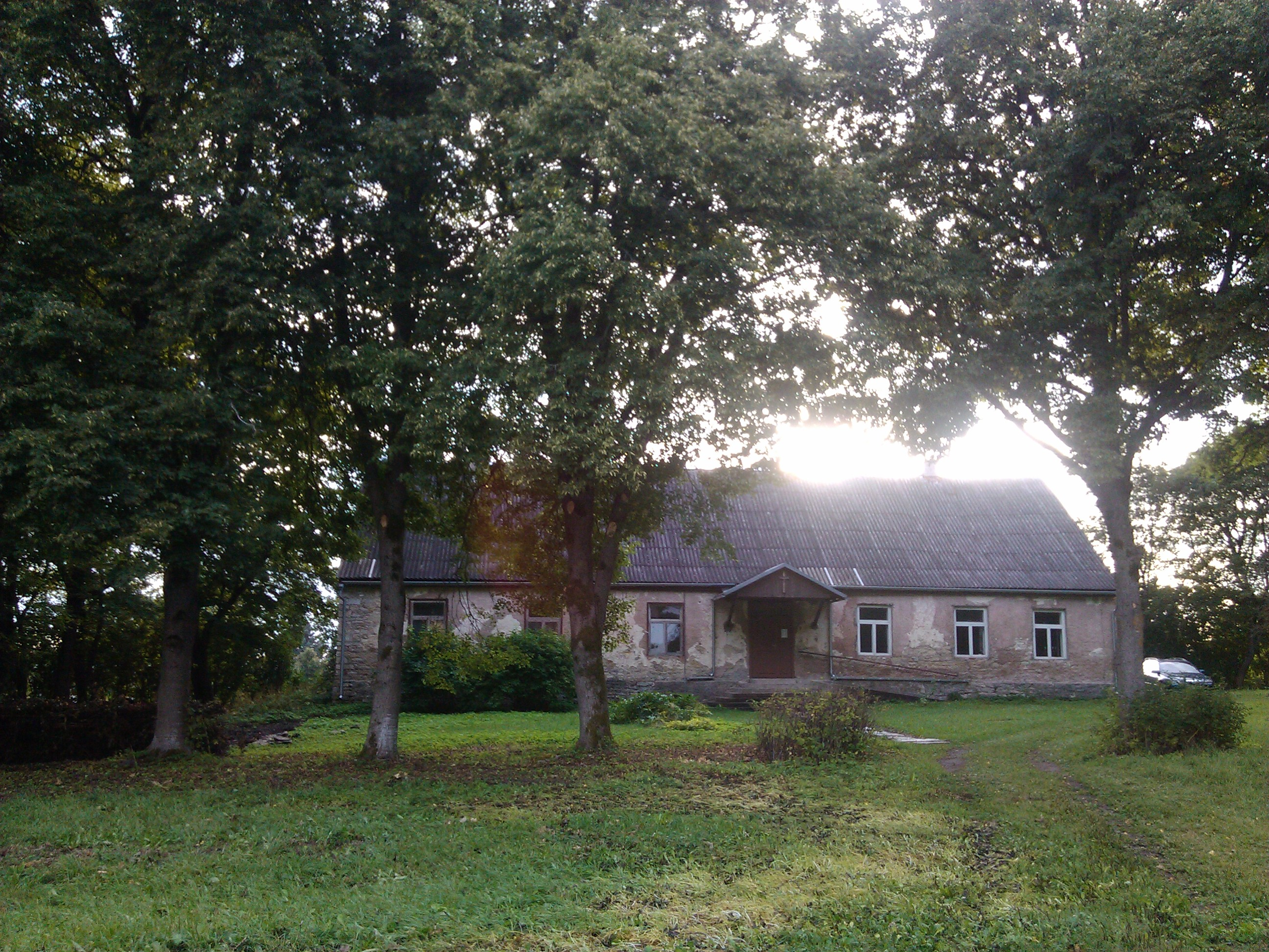 Pöide Church Manor